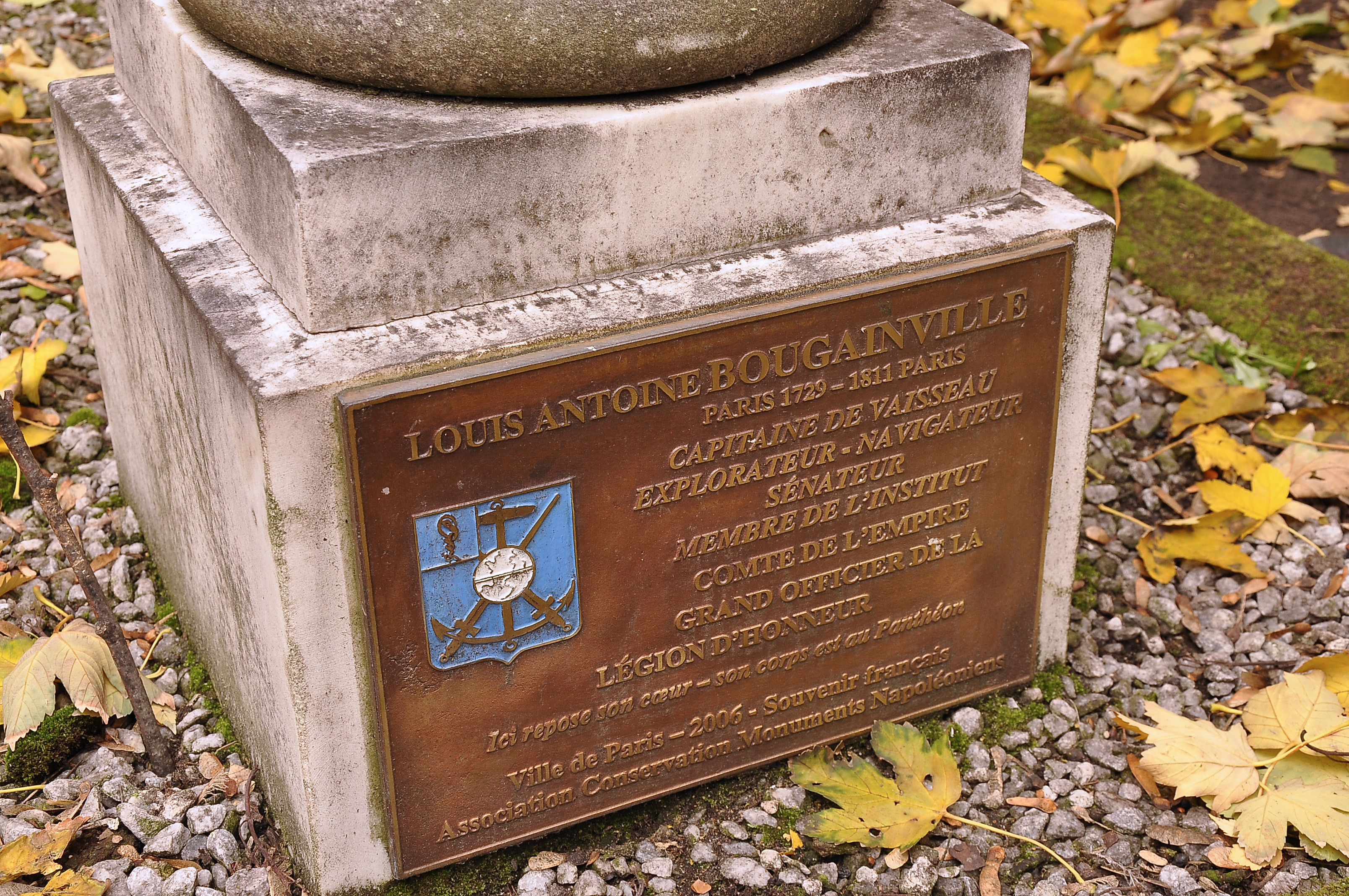 Detail of the grave of Louis Antoine de Bougainville in the Cimetière de Calvaire, Montmartre in Paris 18th district, France.